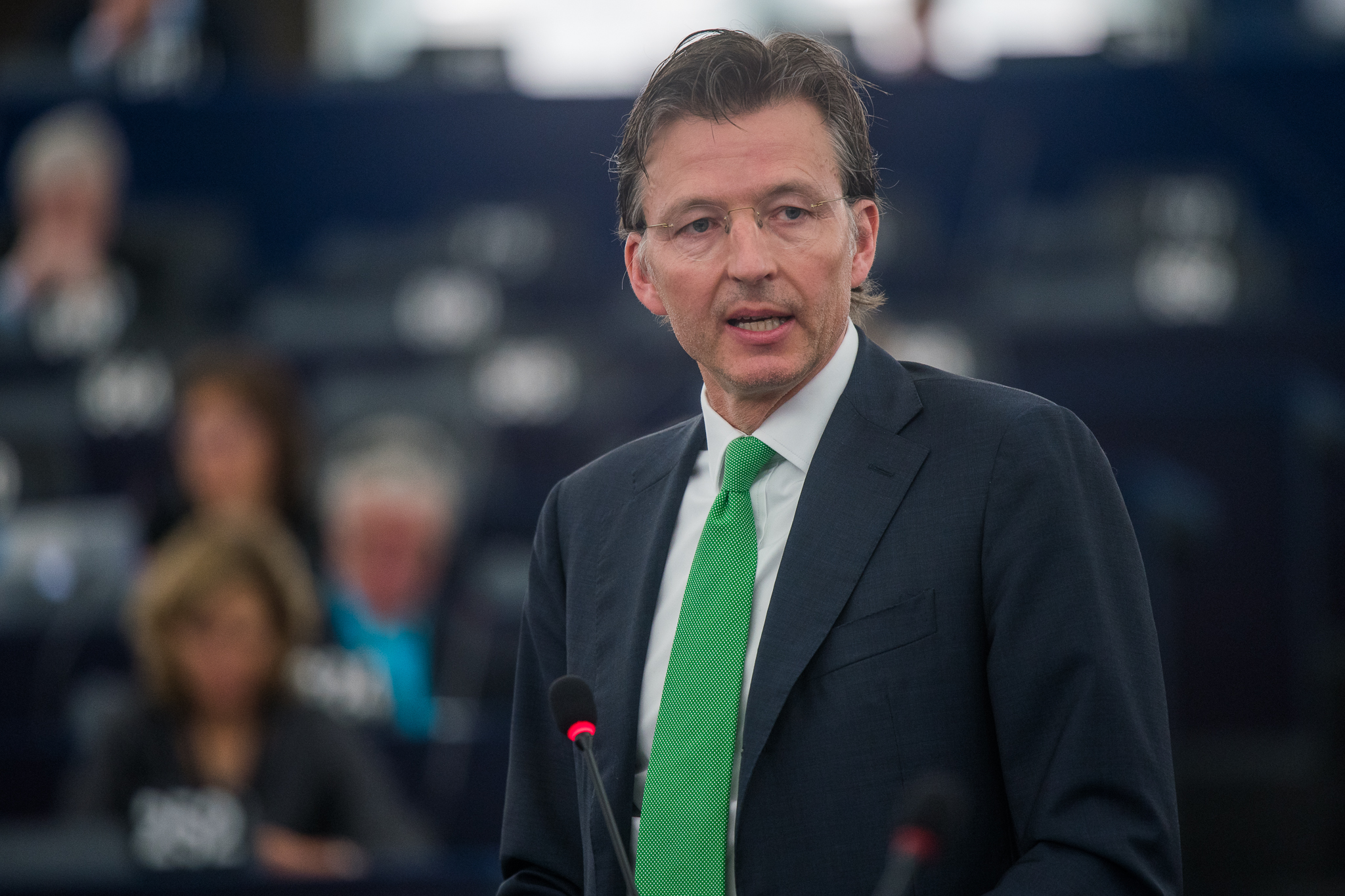 Read our Top Story about climate change here: This photo is free to use under Creative Commons license CC-BY-4.0 and must be credited: "CC-BY-4.0: © European Union 2019 – Source: EP". No model release form if applicable. For bigger HR files please contact: webcom-flickr(AT)